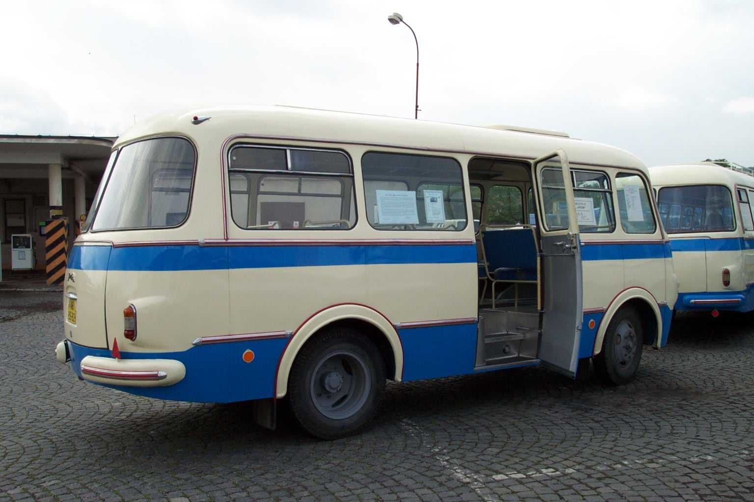 Trailer car Jelcz P01E of RTO bus in Beroun. ČSAP Nymburk operator.